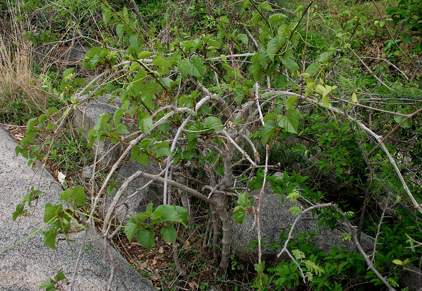 Woodrow's Grape Tree • Marathi: गिरणूळ girnul Cissus woodrowii in Keesara, Rangareddy district, Andhra Pradesh, India.